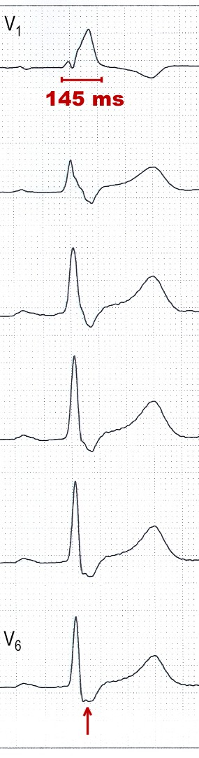 ECG (leads V1-6) of RBBB